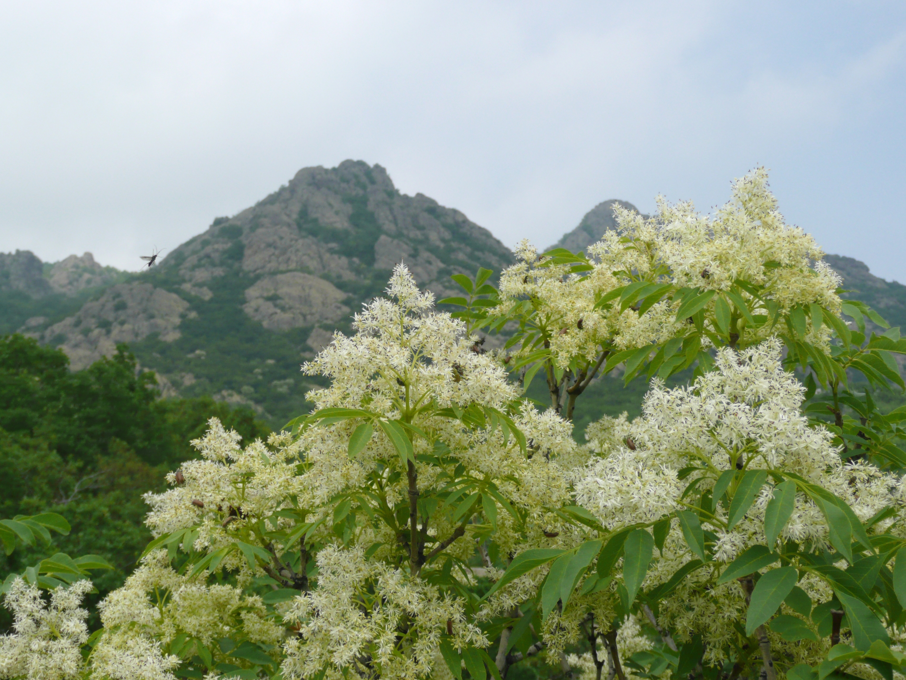 Fraxinus ornus in flower, Bulgaria.